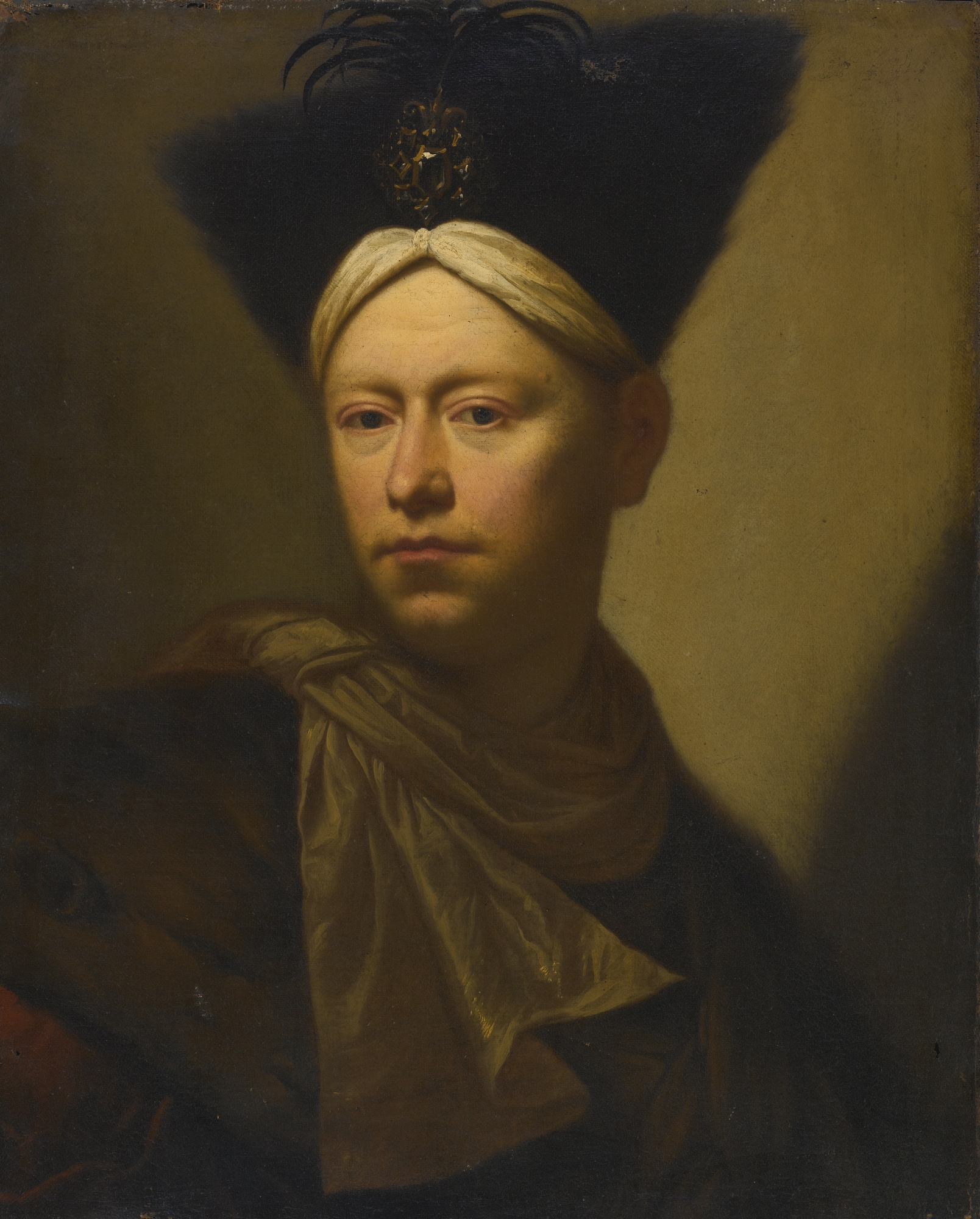 Self Portrait; oil on canvas, 74 x 59.5 cm